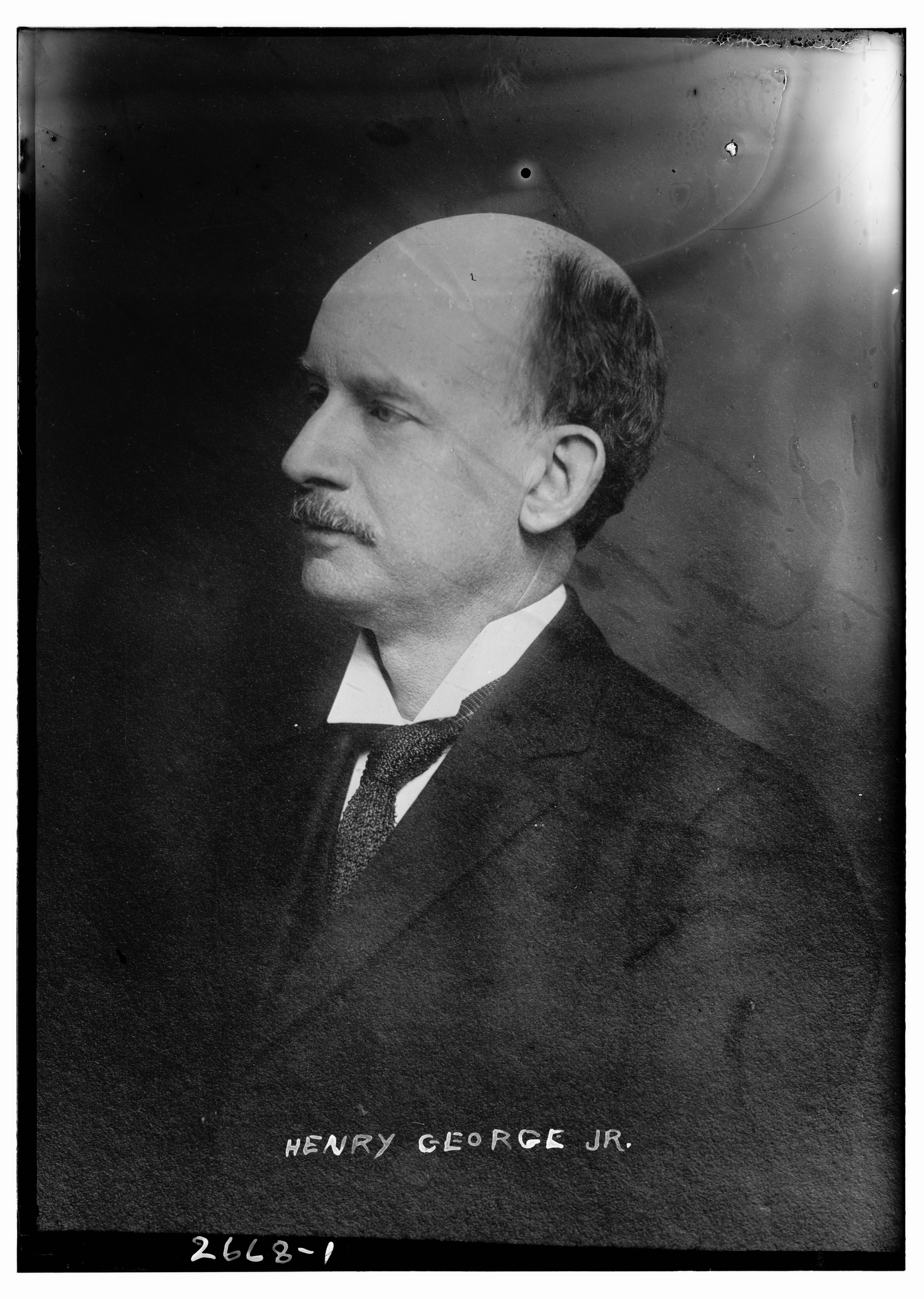 Title: Henry George Jr. Abstract/medium: 1 negative : glass ; 5 x 7 in. or smaller.